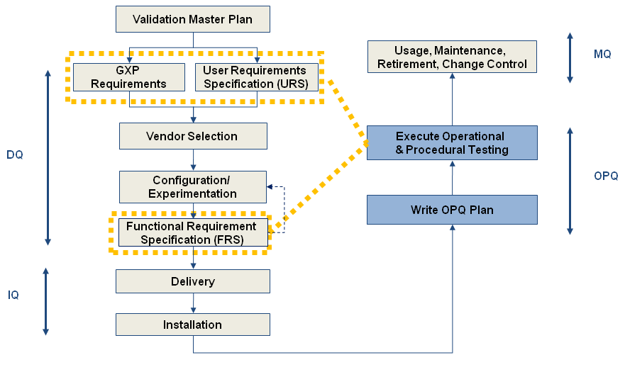 OPQ Adaptation of V-Model